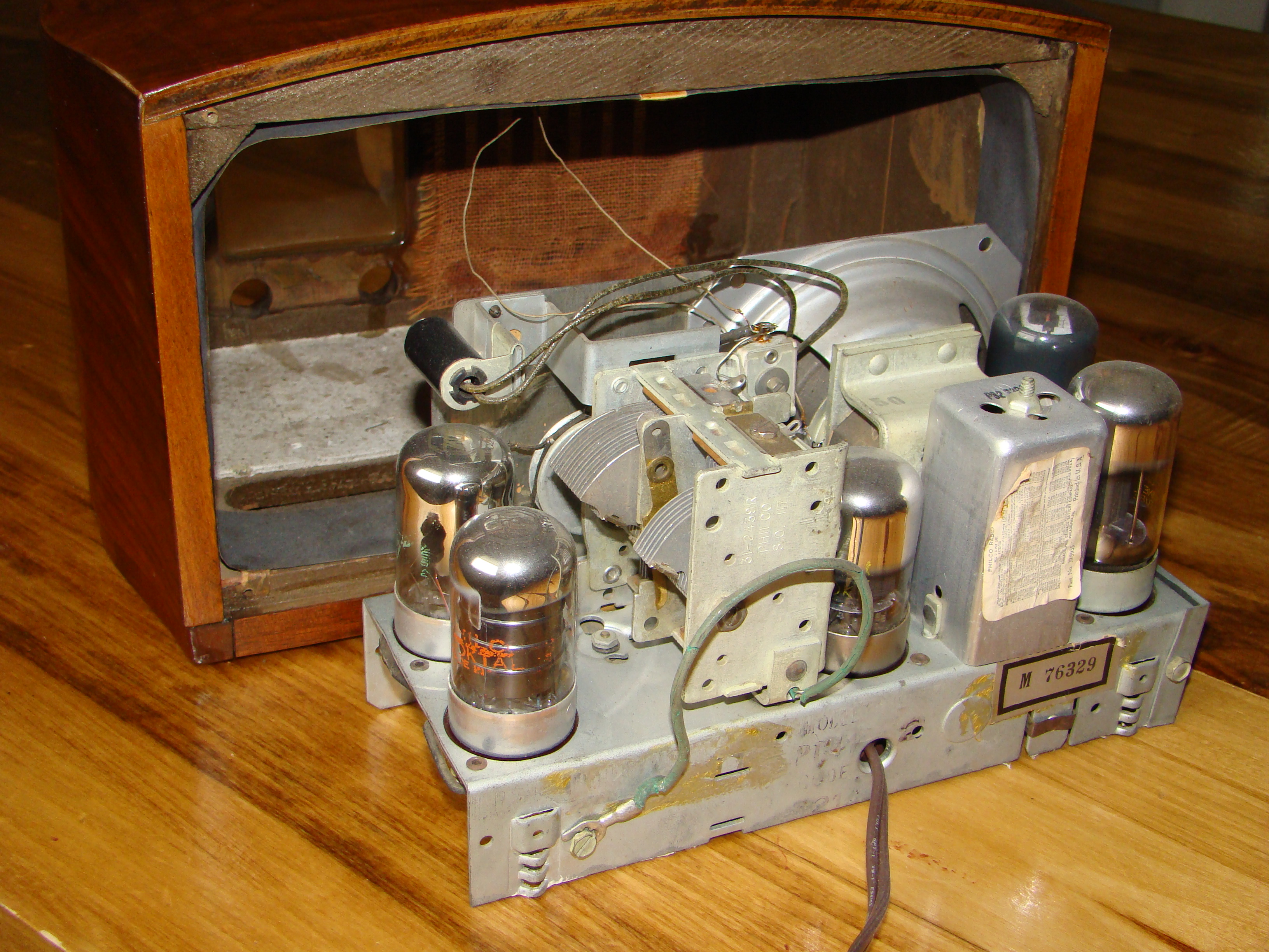 Vacuum tube radio, Philco, model PT-44, chassis, back